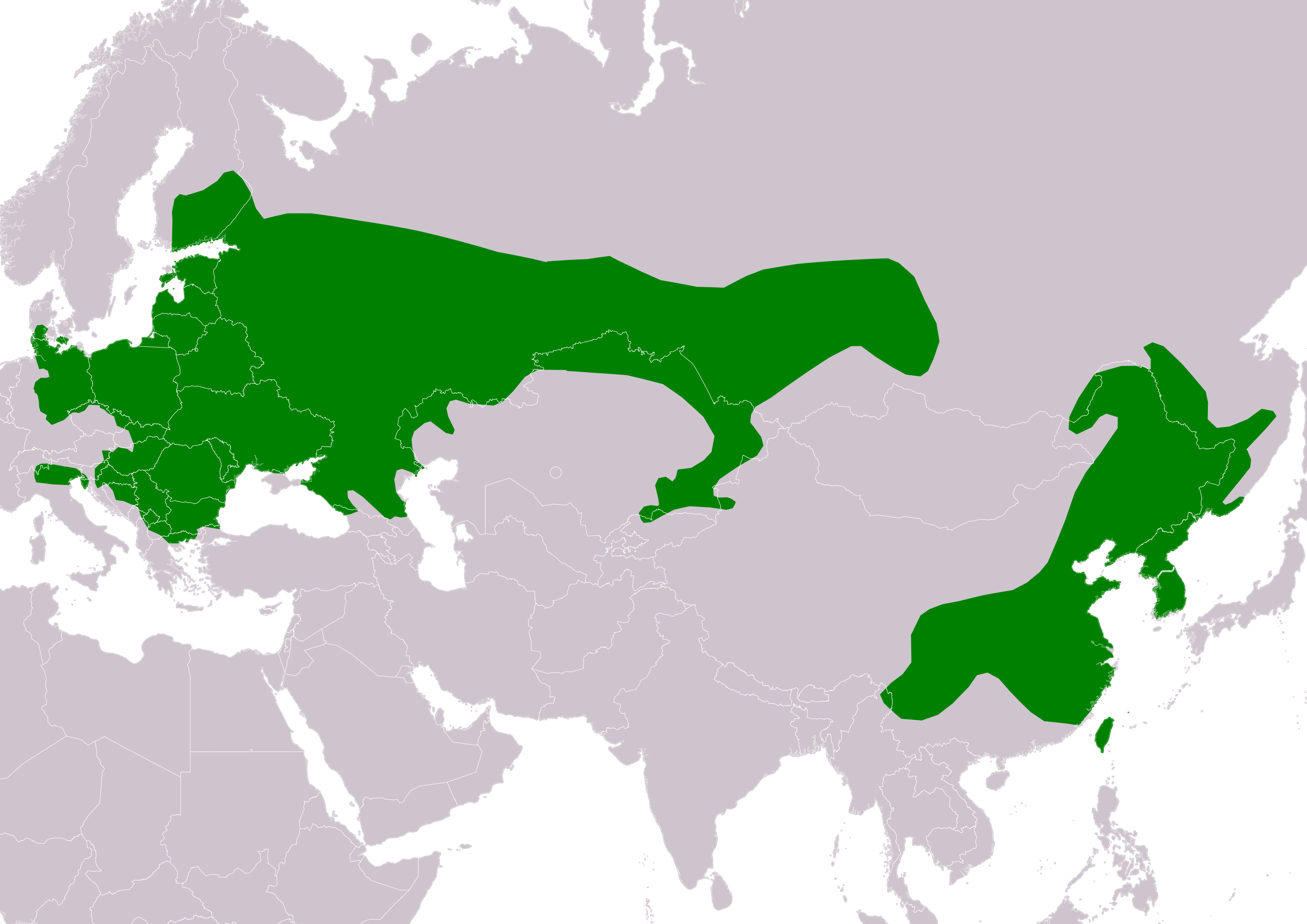 Distribution map of Striped Field Mouse (Apodemus agrarius) according to IUCN version 2019-3; key: Legend: Extant, resident (#008000)